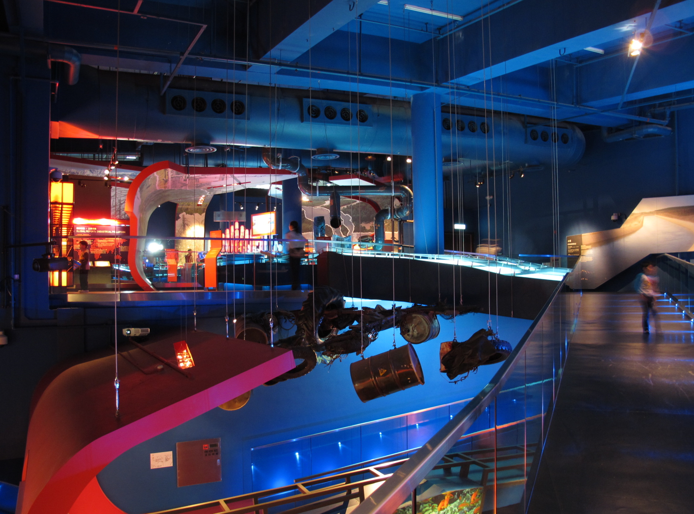 Hong Kong Wetland Park Visitor Centre Wetland Challenge